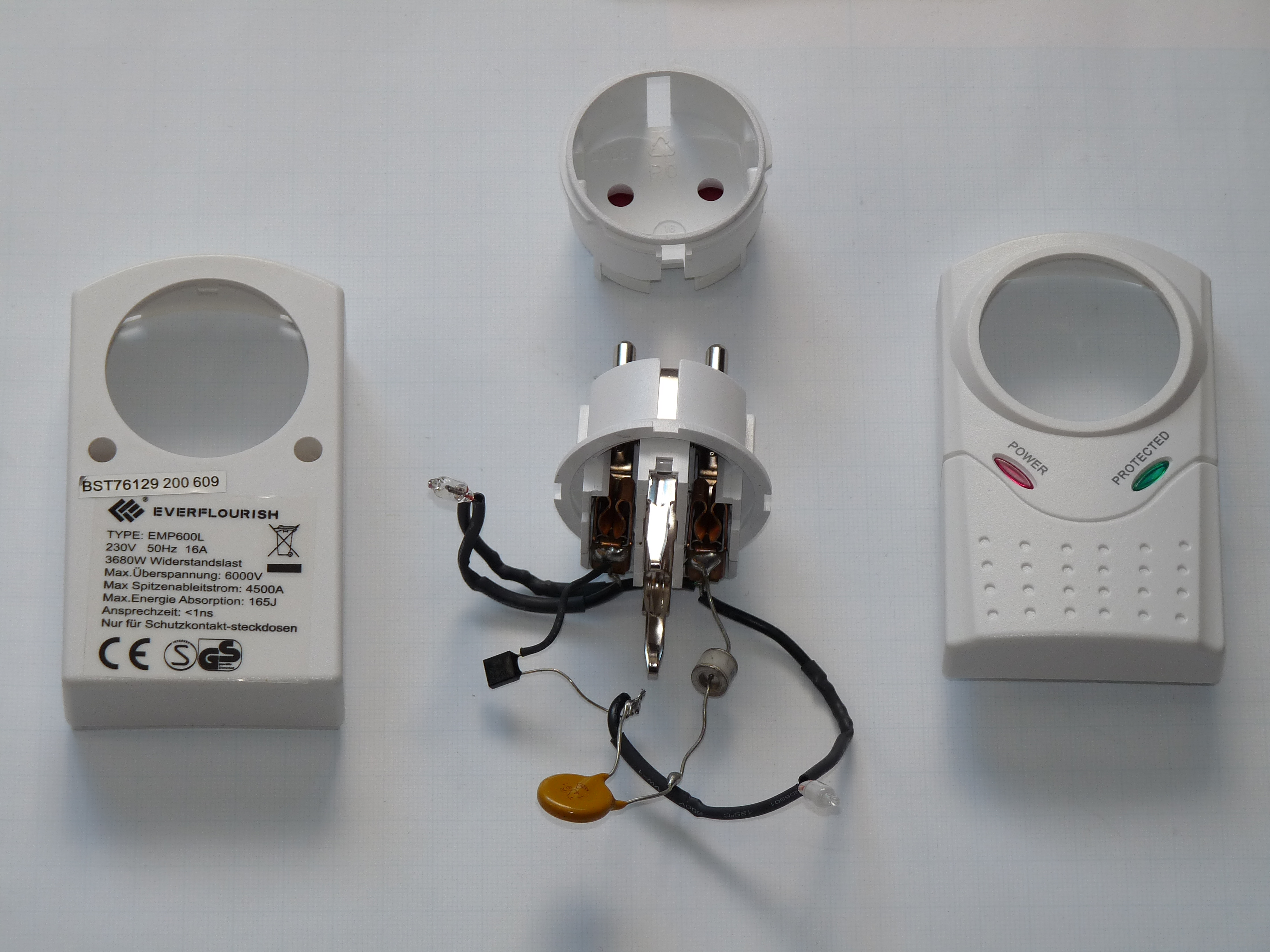 Surge protector 250V/16A for Schuko socket